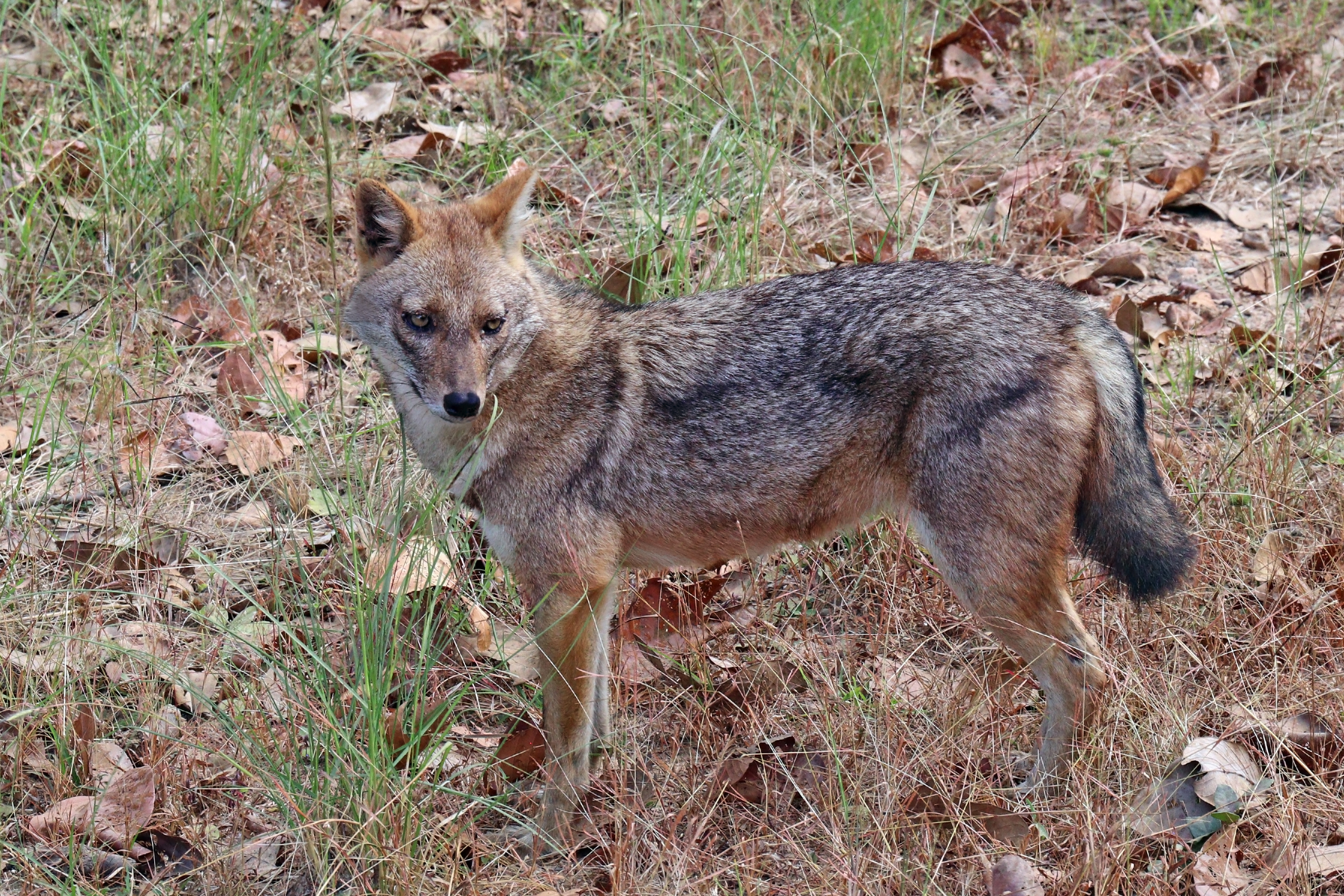 Golden jackal (Canis aureus indicus) male, Kanha National Park, MP, India